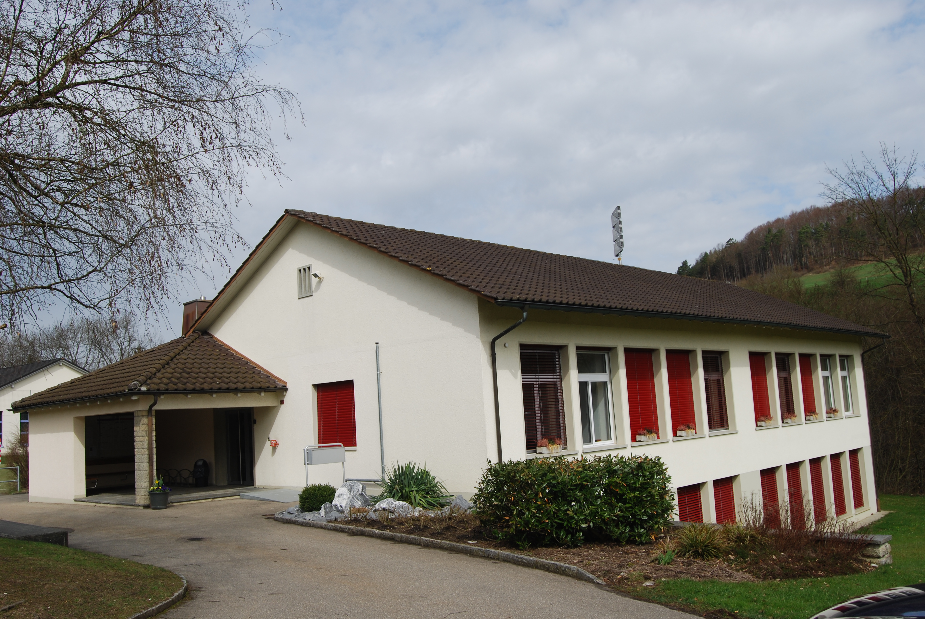 Municipal administration and school of Böbikon, canton of Aargau, SwitzerlandEsperanto: Komunuma domo kaj lernejo de Böbikon, Kantono Argovio, Svislando